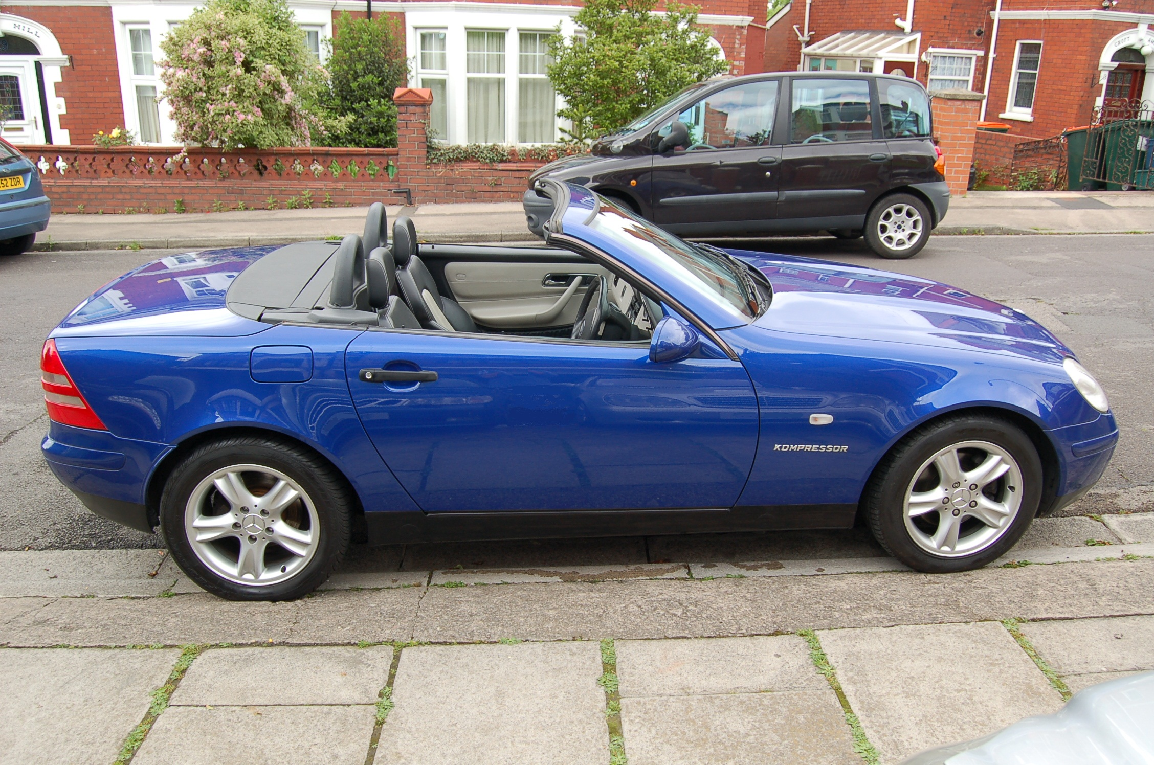 1998MY SLK230 Kompressor R170 with roof lowered. (Wales, UK 2008)